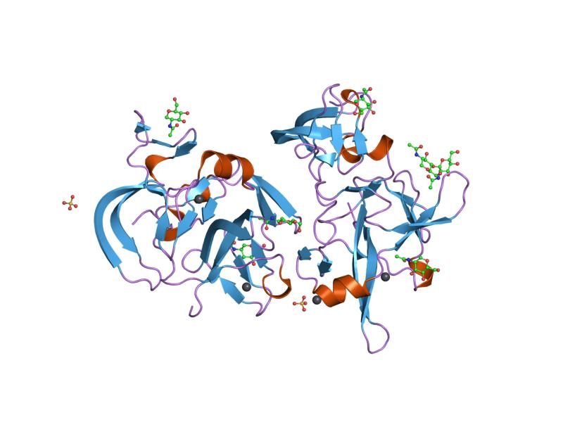 Cartoon representation of the molecular structure of protein registered with 1fjr code.